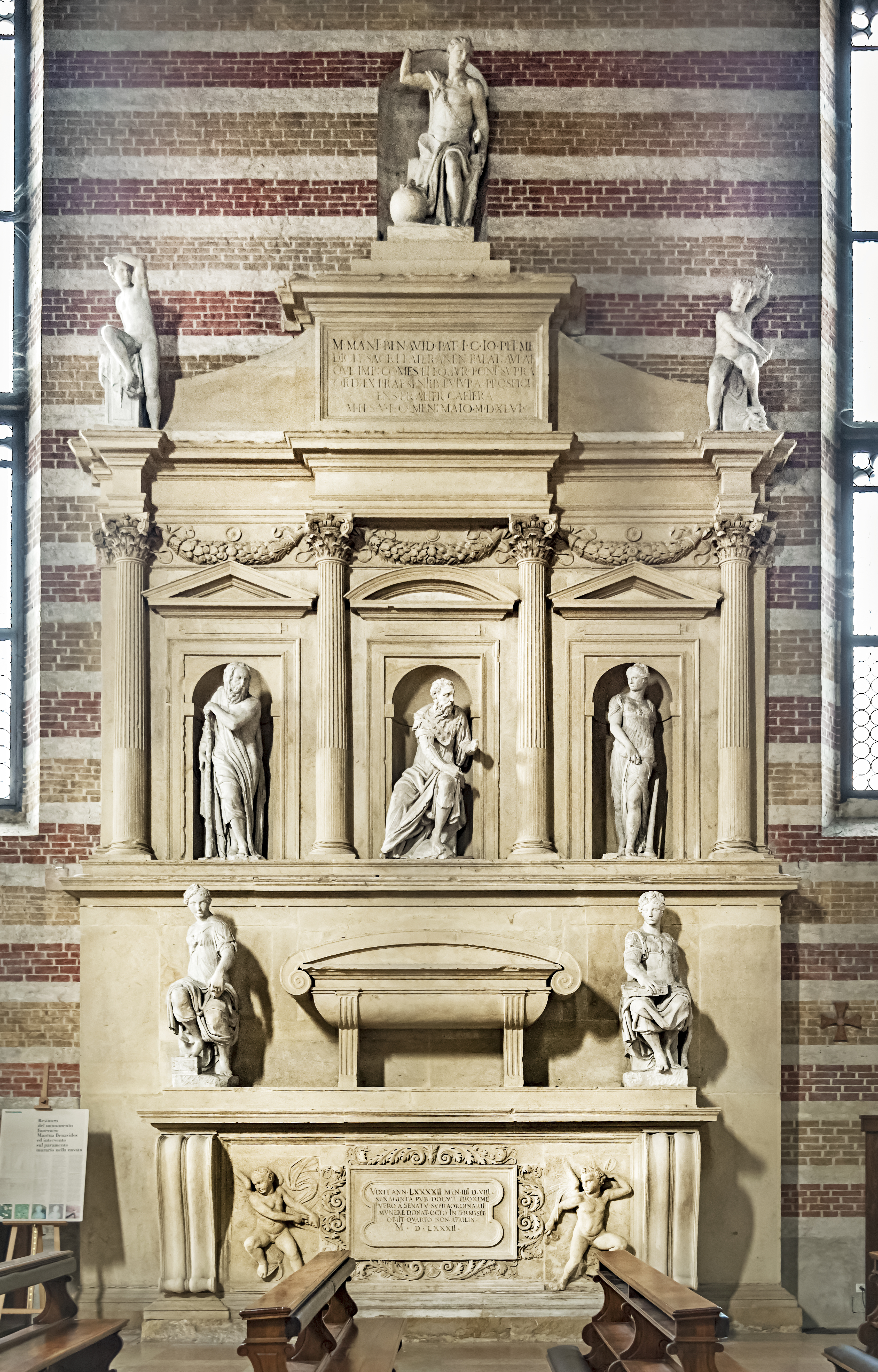 After his transfer from Mantua to Padua, the learned scholar and writer Marco Mantua Benavides in 1544 had a grandiose mausoleum built by the Florentine sculptor Bartolomeo Ammannati. On the sides of the sarcophagus, there are the two statues of Work and Patience, while in the upper part there is a statue representing the sponsor between Time and Fame. The whole is dominated by Immortality. The monument is made of Nanto yellow stone, while the statues are in white marble.